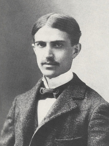 Formal portrait of Stephen Crane, taken in Washington D.C., March 1896